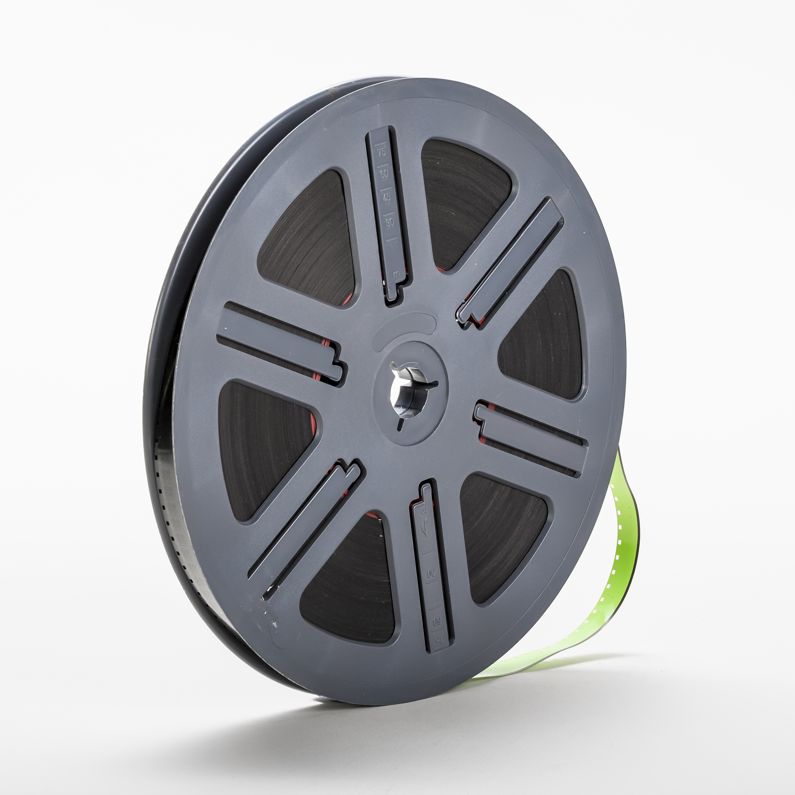 A developped Super 8 mm film with sound track and green start section on a spoolFocus stacking of 5 pictures.